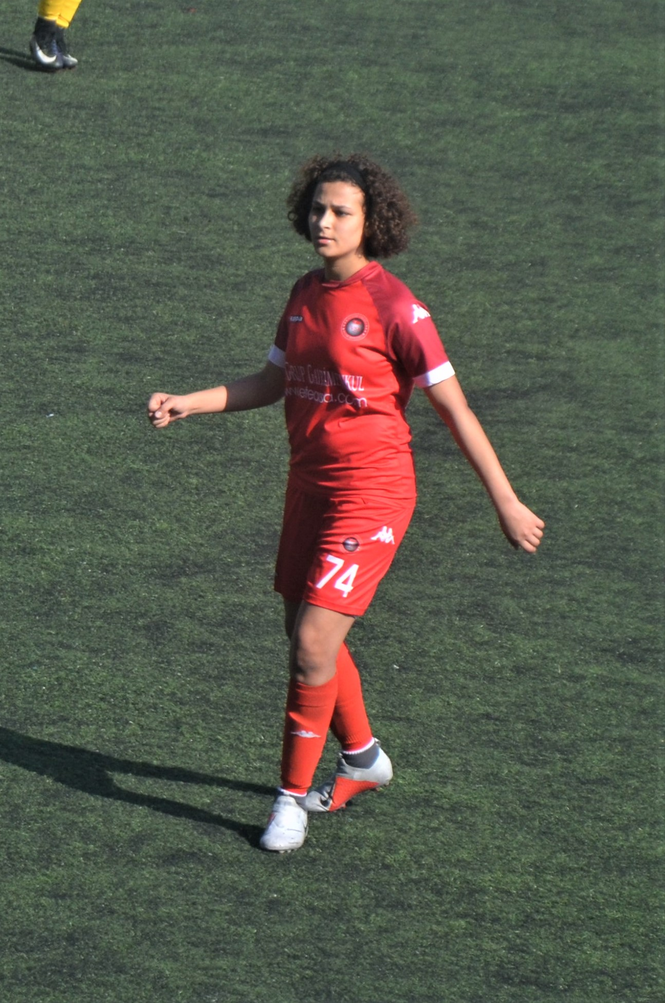 Noha Tarek playing for Fatih Vatan Spor (#74) in the 2018-19 Turkish Women's First Football League against Kireçburnu Spor.